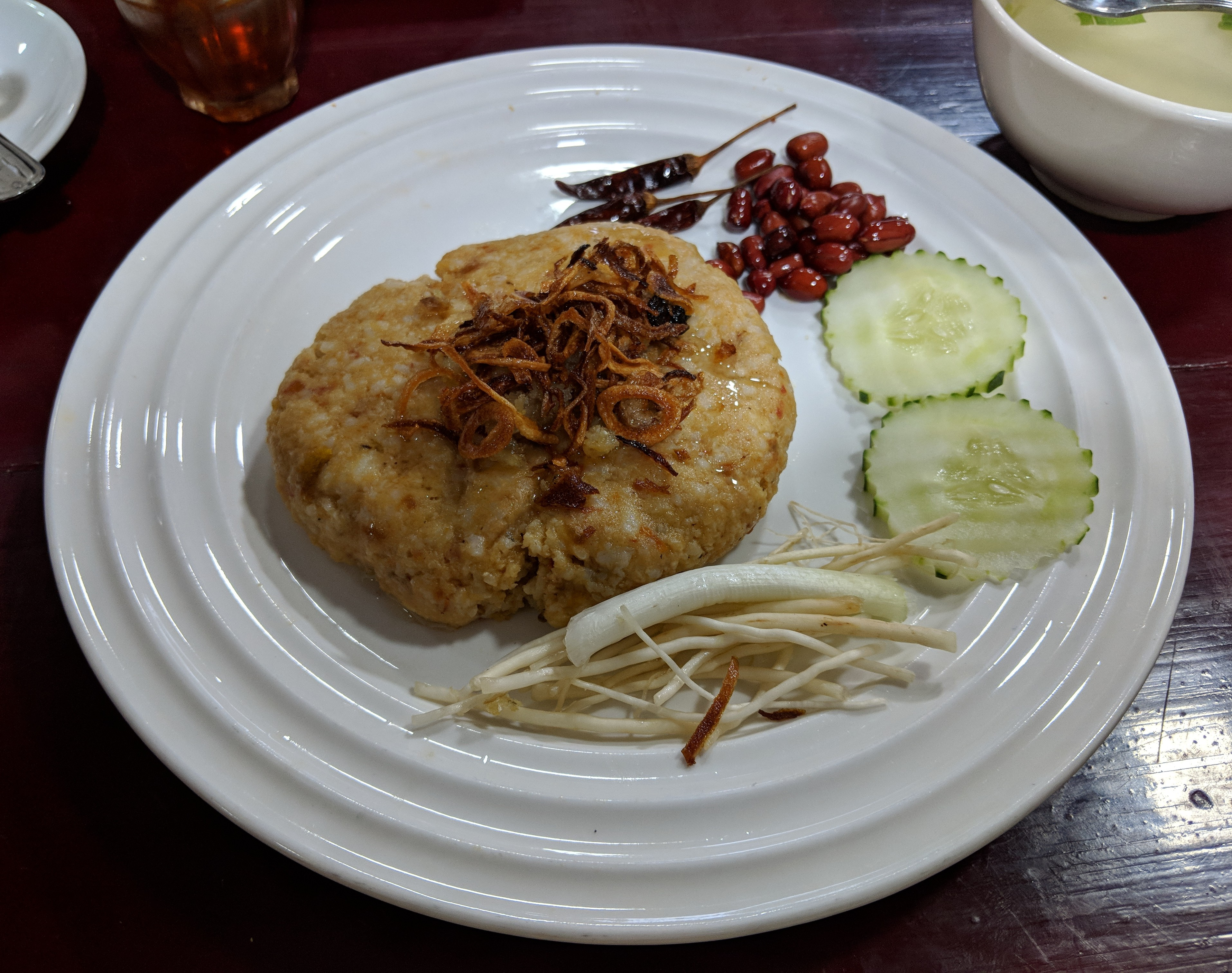 Fish Rice Mixed ငါးထမင်းနယ်